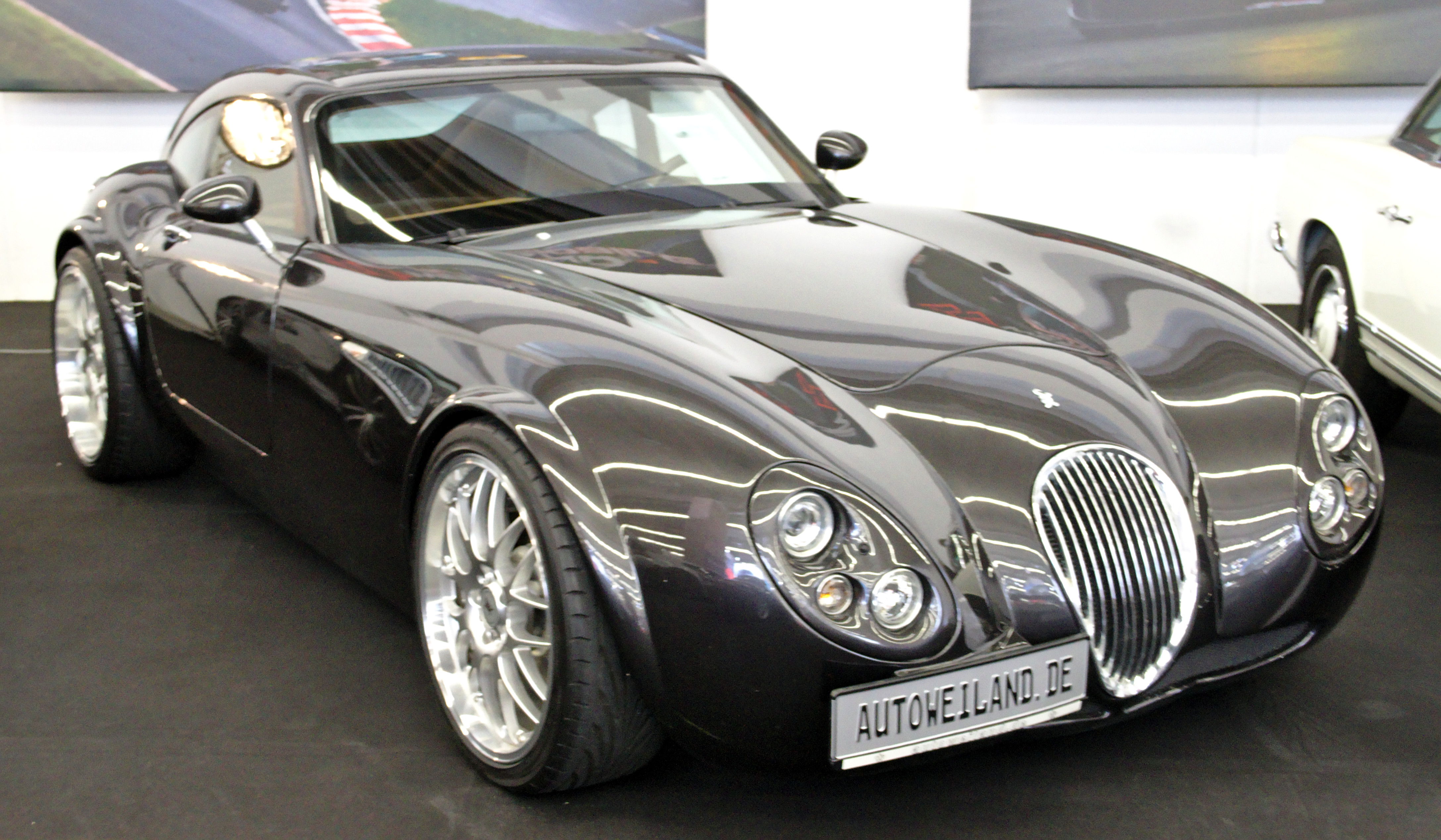 Wiesmann GT MF4 at IAA 2019